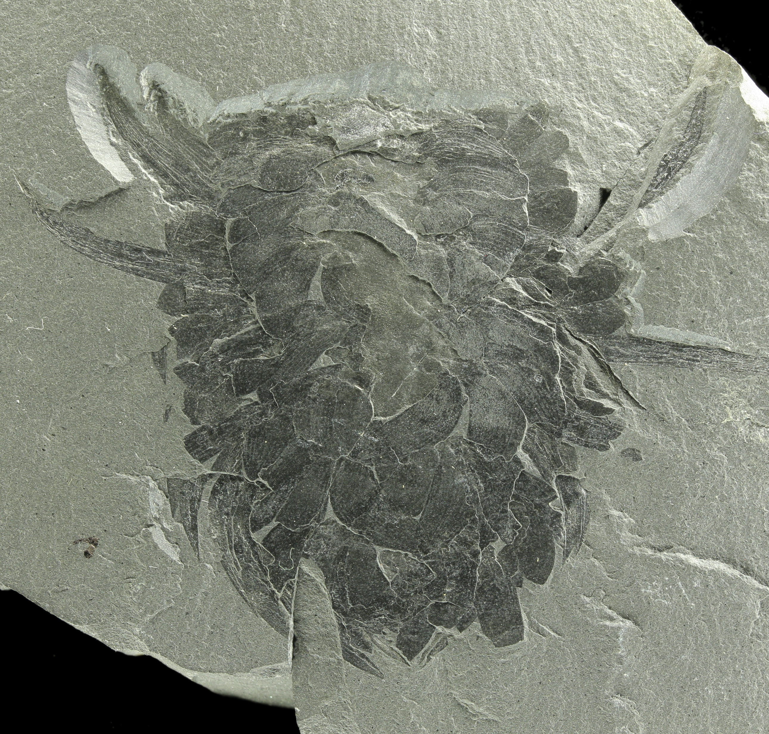 See File:Wiwaxia 5c.jpg for details.